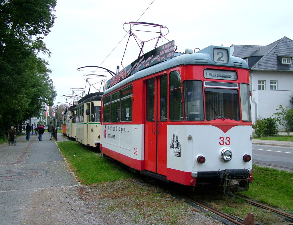 A collection of tramcars of the Naumburg tram at Vogelwiese stop